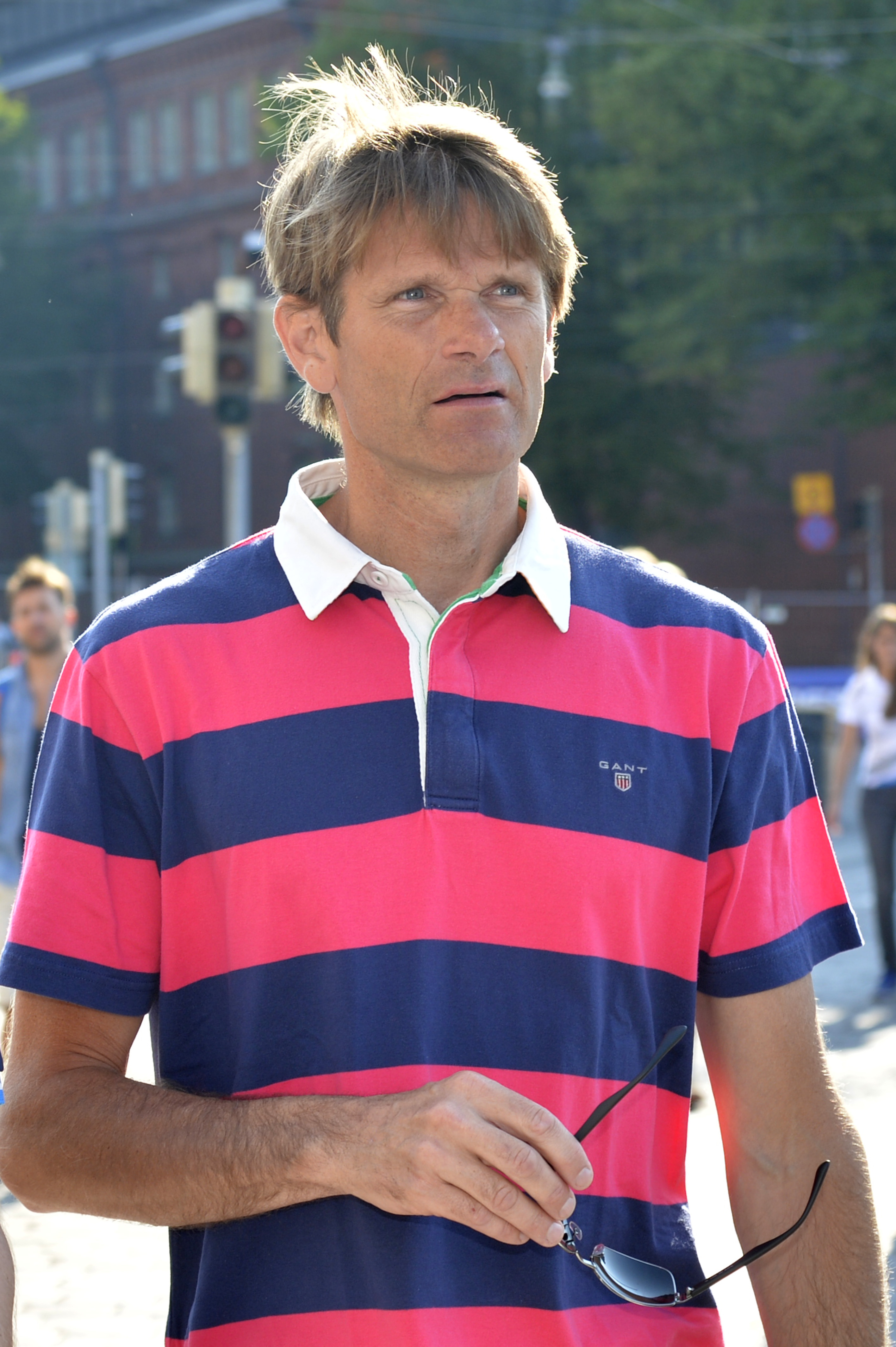 Two-time rally world champion Marcus Grönholm.